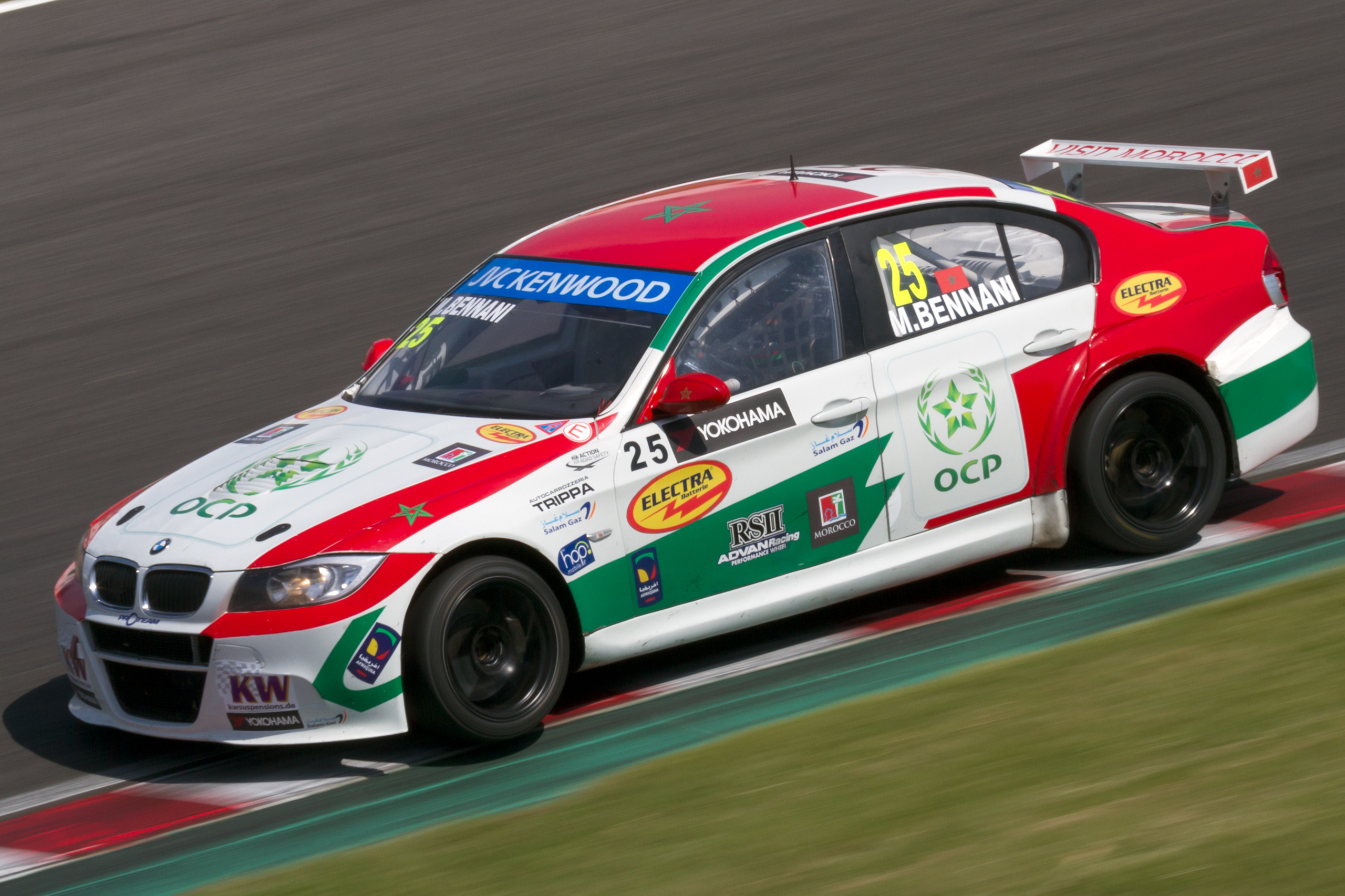 World Touring Car Championship 2013 Race of Japan: Mehdi Bennani (Proteam)